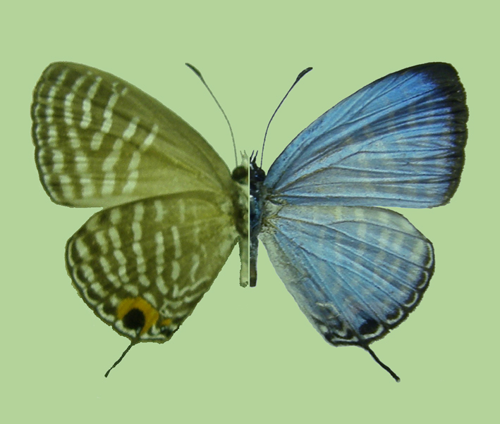 Upperside & underside of male of Jamides aritai,lycaenid butterfly of the Philippines.